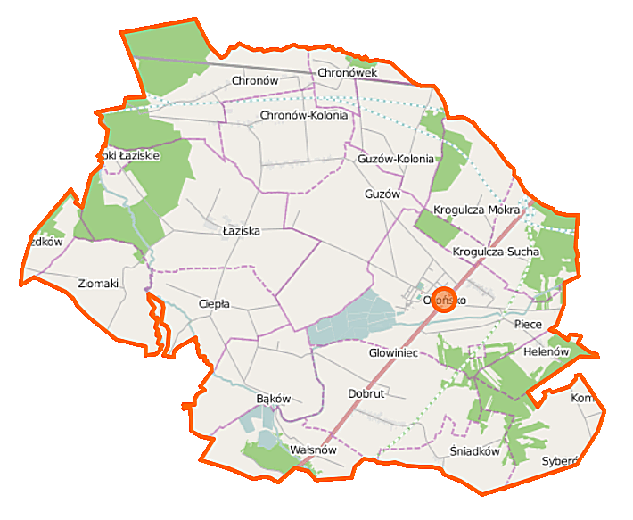 Map of Gmina Orońsko, Poland This map of Orońsko (gmina) was created from OpenStreetMap project data, collected by the community. This map may be incomplete, and may contain errors. Don't rely solely on it for navigation. Border coordinates51.371120.8534←↕→21.048151.2709